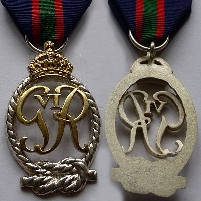 The second King George VI version of the Decoration for Officers of the Royal Naval Volunteer Reserve